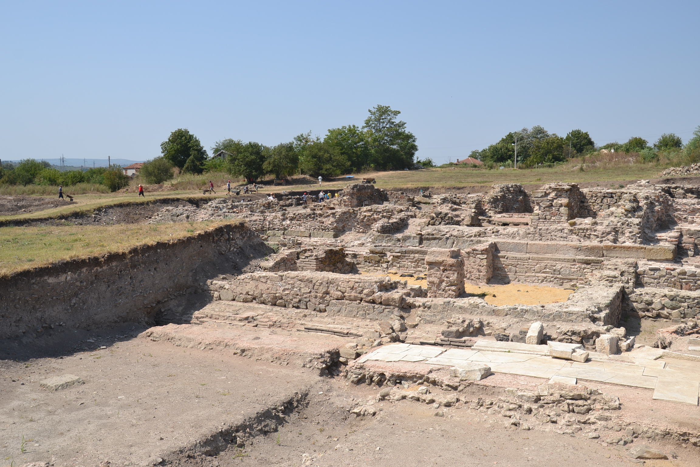 Debelt (Дебелт), Bulgaria - ruins of ancient city Deultum